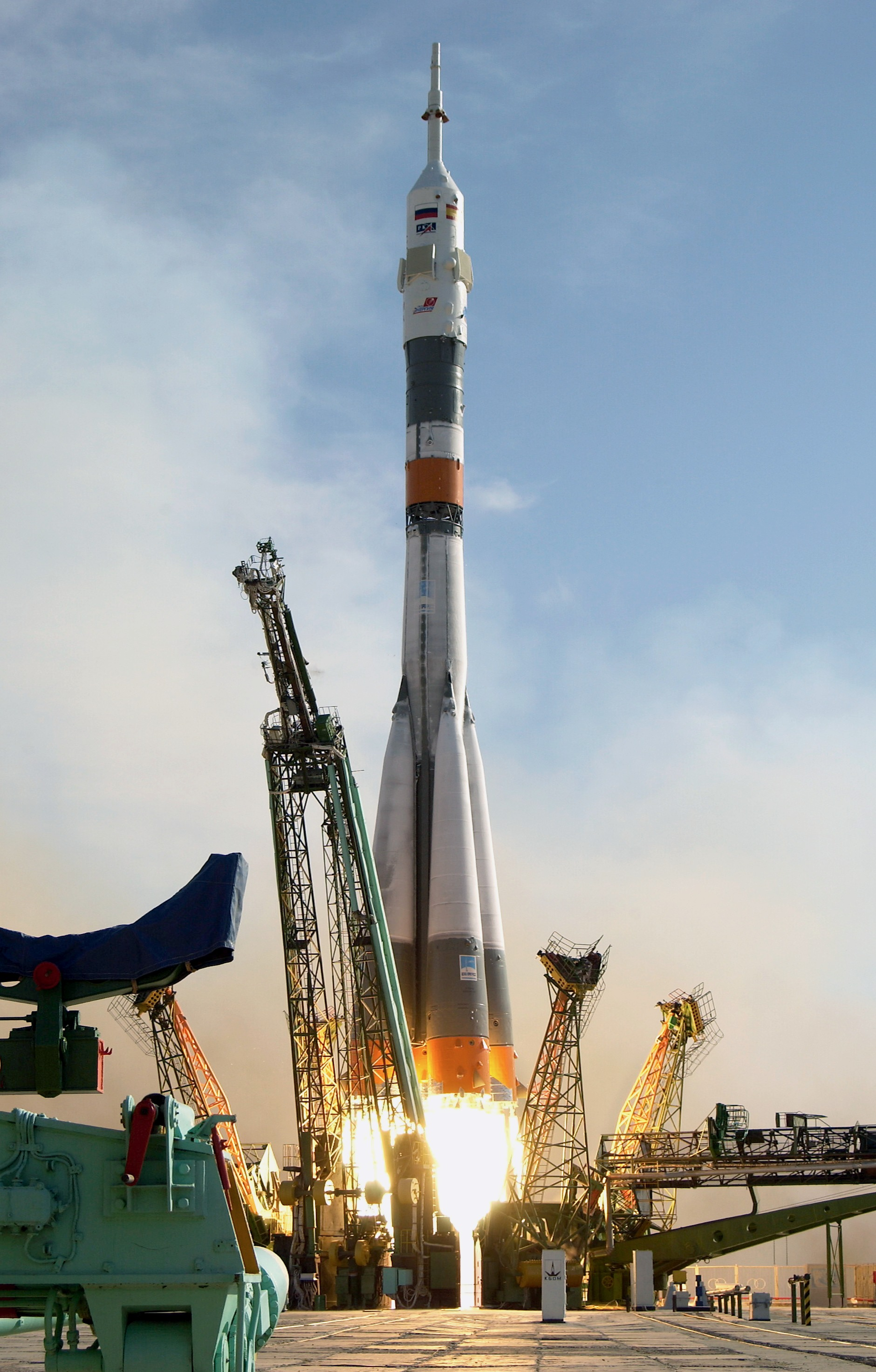 The Soyuz TMA-3 vehicle launches from the Baikonur Cosmodrome in Kazakhstan October 18, 2003, carrying astronaut C. Michael Foale, Expedition 8 mission commander and NASA ISS science officer; cosmonaut Alexander Y. Kaleri, Soyuz commander and flight engineer; and European Space Agency (ESA) astronaut Pedro Duque of Spain to the International Space Station (ISS). The trio will arrive at the ISS October 20 as Foale and Kaleri take over command of Station operations for the next 6 1/2 months. Duque will return to Earth October 28 with cosmonaut Yuri I. Malenchenko, Expedition 7 mission commander, and astronaut Edward T. Lu, NASA ISS science officer and flight engineer, in another Soyuz capsule already docked to the ISS. Kaleri and Malenchenko represent Rosaviakosmos.